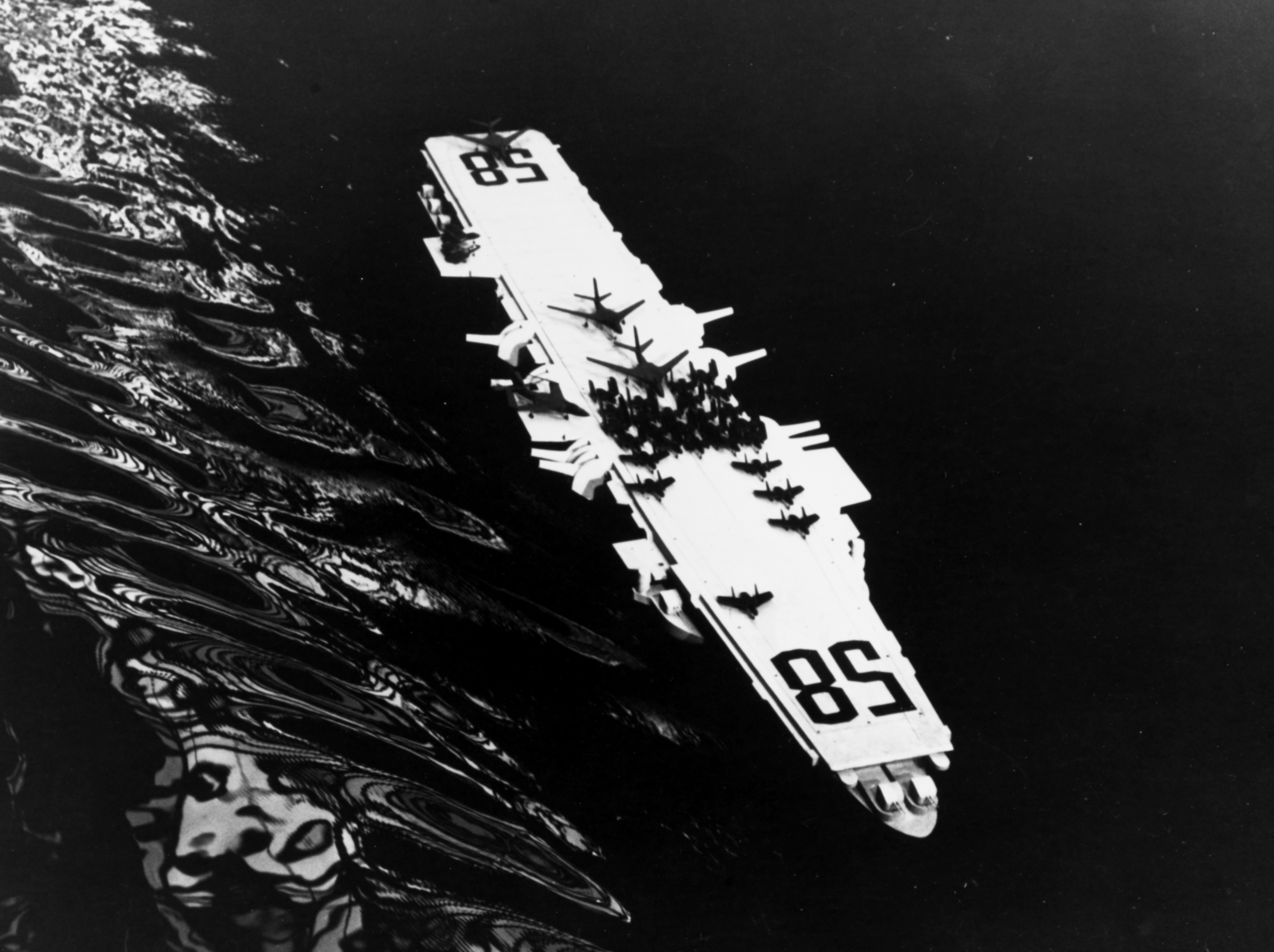 A preliminary design model of the proposed U.S. Navy aircraft carrier USS United States (CVA-58) undergoing seakeeping tests at the David Taylor Model Basin, Carderock, Maryland (USA), circa 1947. This is an early version of the CVA-58 design, without catapult sponsons. Note the folding smokestacks in the down position, as they would have been during flight operations. Aircraft models on the flight deck appear to represent the Vought F7U Cutlass fighter and a notional heavy attack bomber.